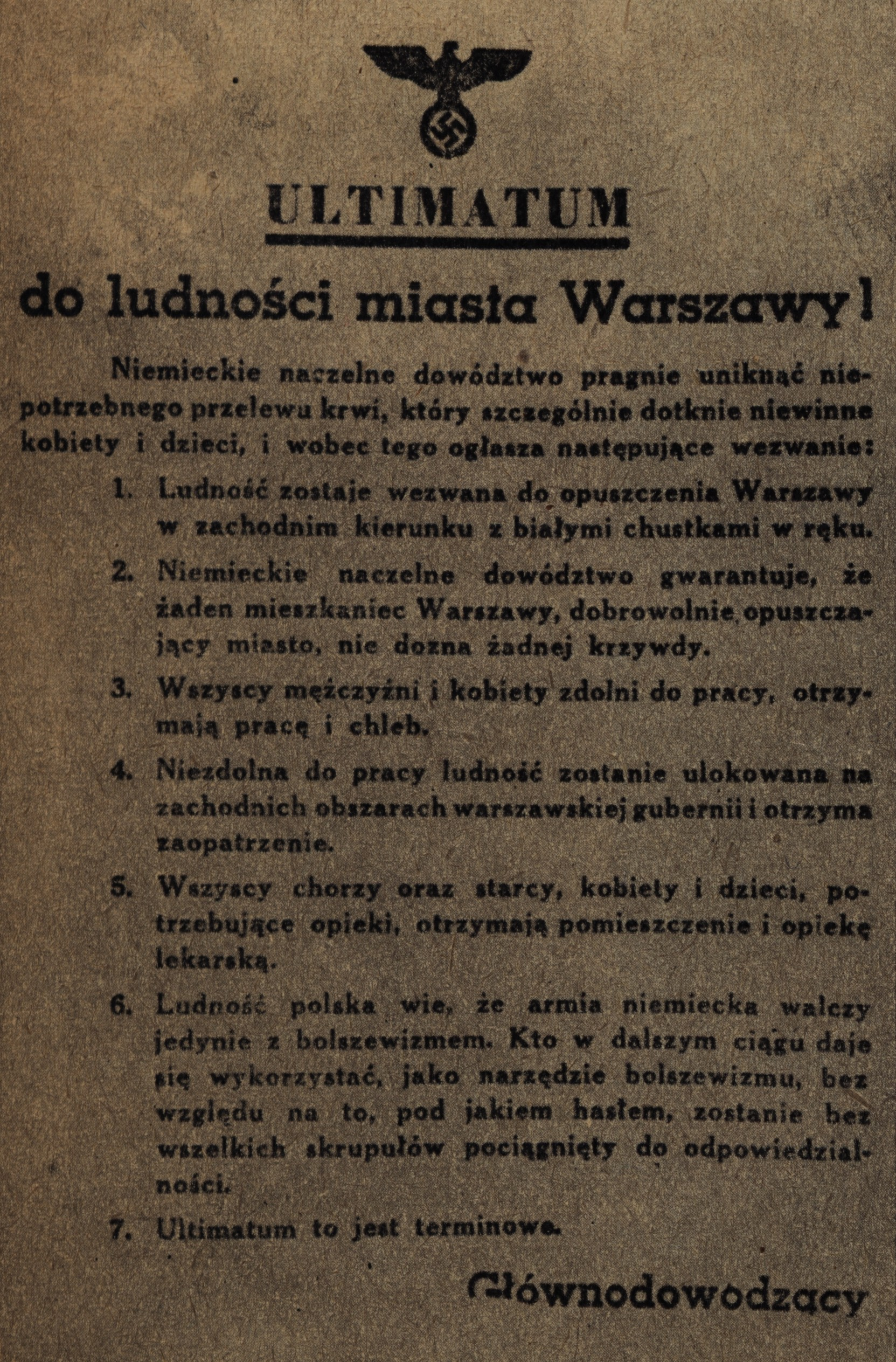 German propaganda leaflet, signed by SS-Obergrupenführer Erich von dem Bach-Zelewski, dropped over the Warsaw during the uprising in September 1944.